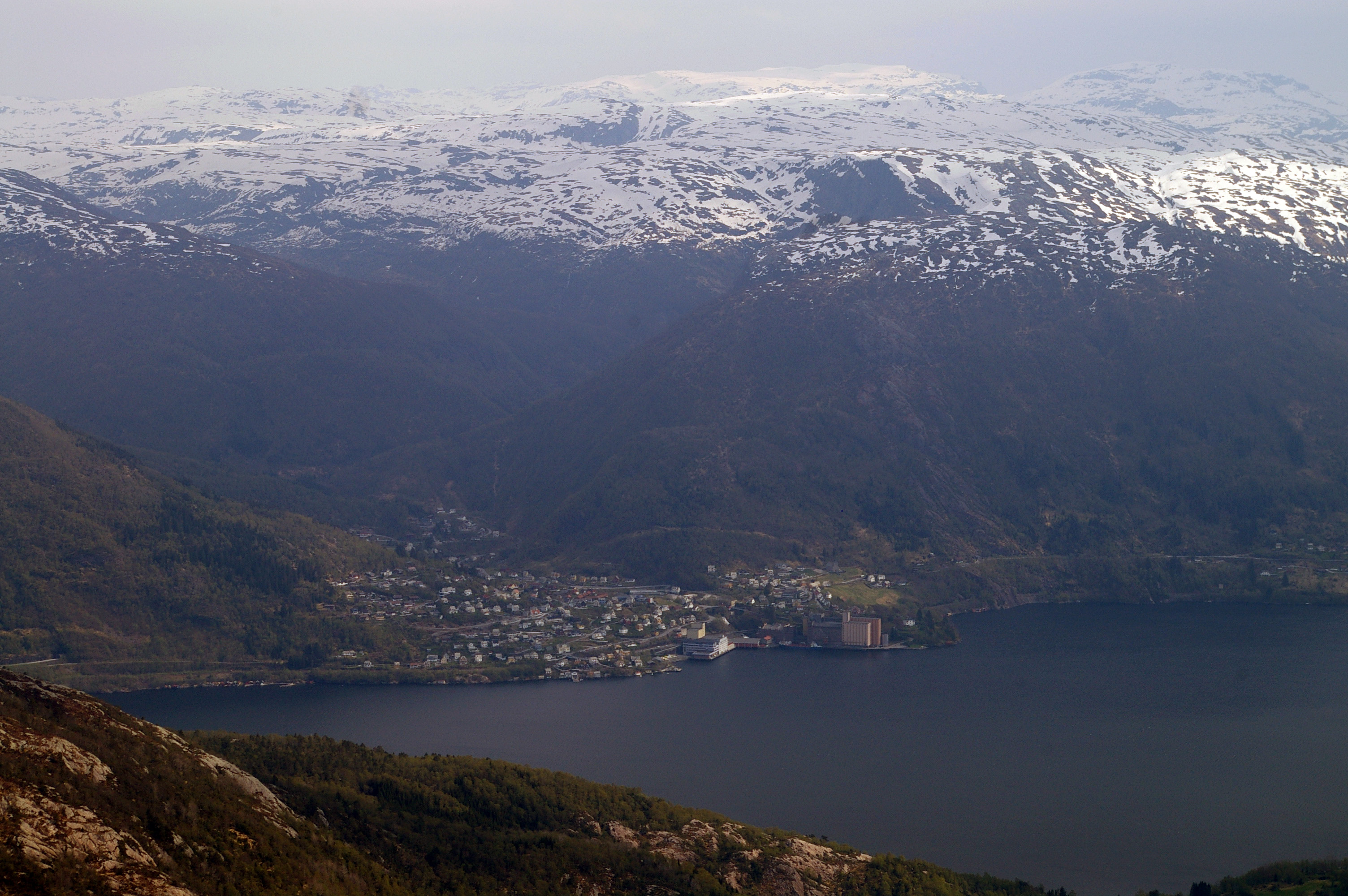 The village Vaksdal, Hordaland, Norway, seen from the top of Brøknipa.